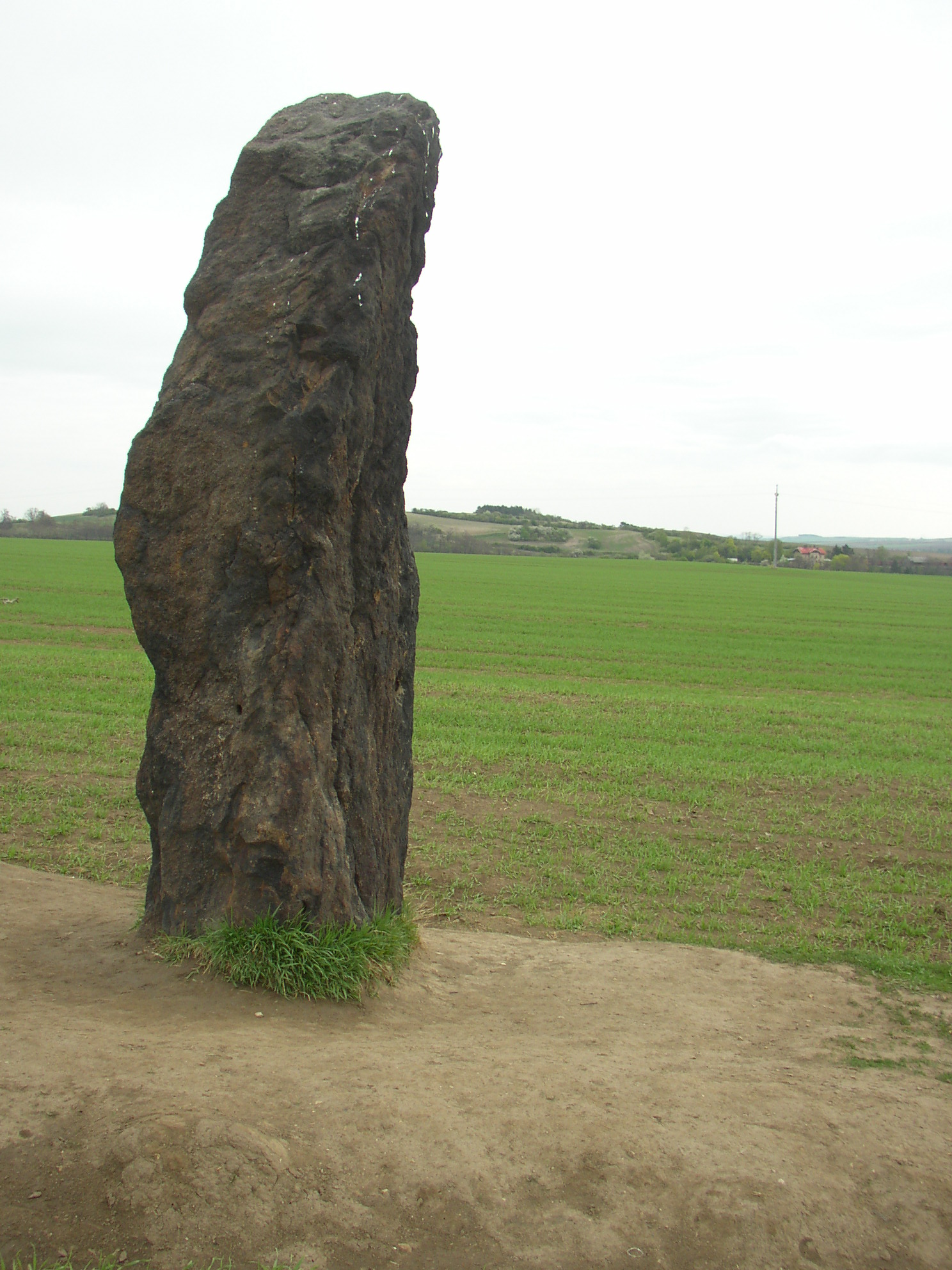 Klobuky, Kladno District, Czech Republic. Zkamenělý pastýř (Shepherd turned-into-stone), an alleged menhir standing in a field northwest of the village. A view from west.